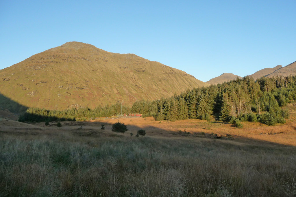 View towards Beinn Luibhean From the road through Gleann Mor.